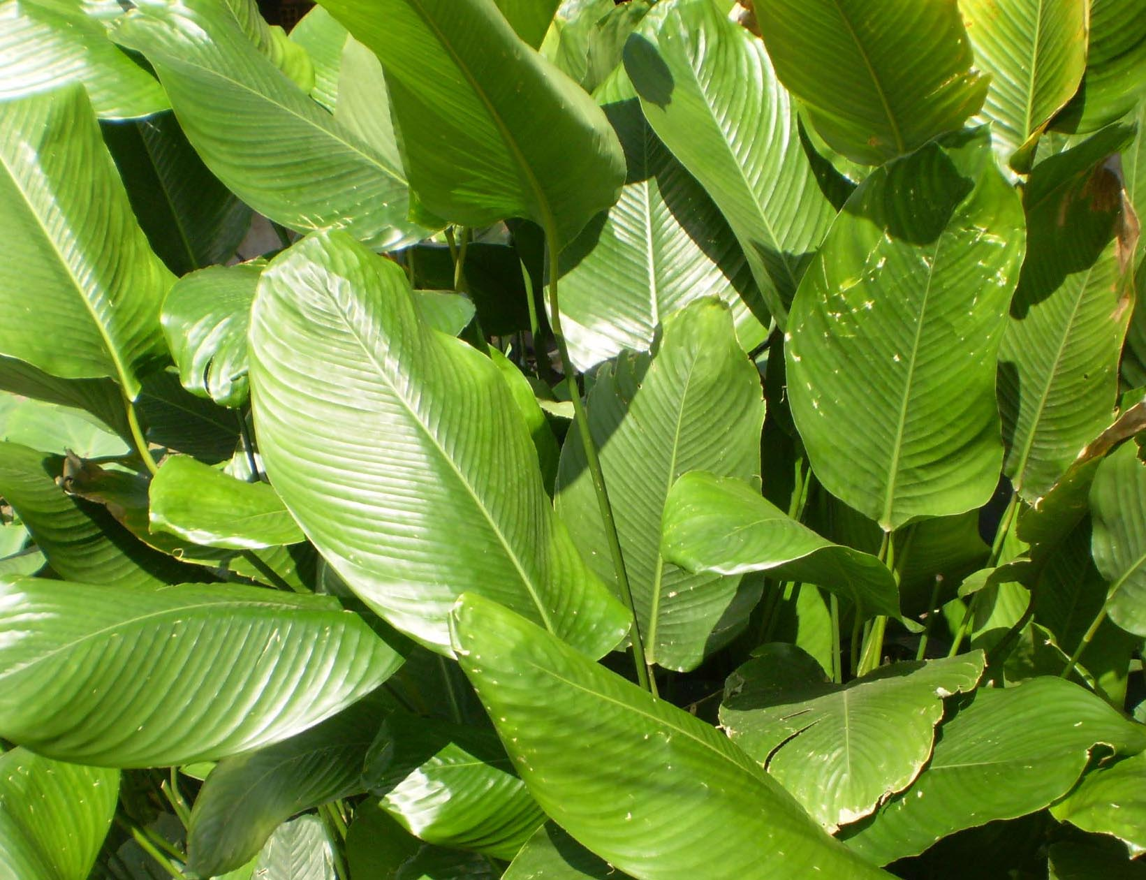 Leaves of Phrynium placentarium